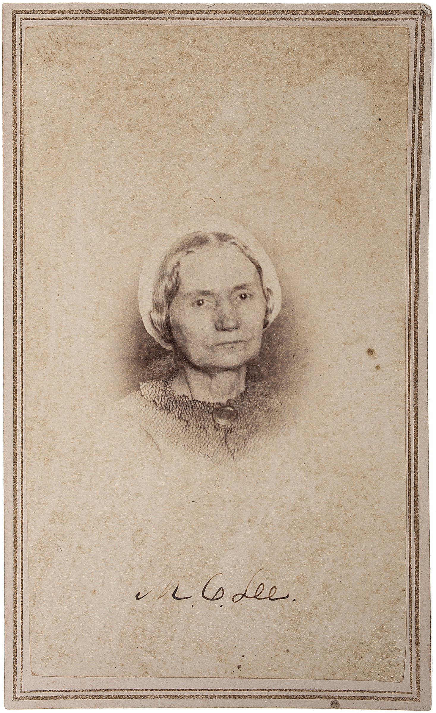 Carte de Visite image of Mary Anna Custis Lee